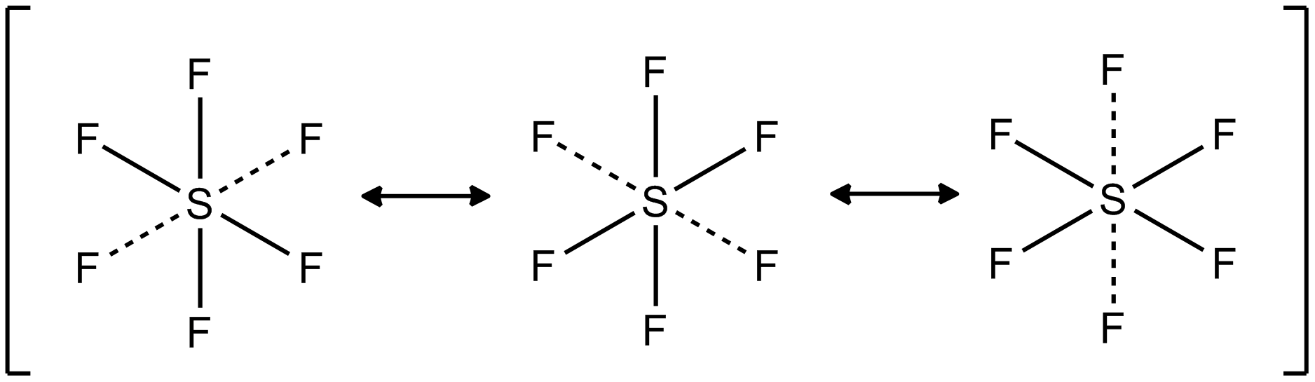 hexacoordinated sulfur compounds adapted from Gillespie, R. J. and B. Silvi. The Octet Rule and Hypervalence: Two Misundersood Concepts. Coordination Chemistry Reviews. 2002, 53: 62, 233-234.